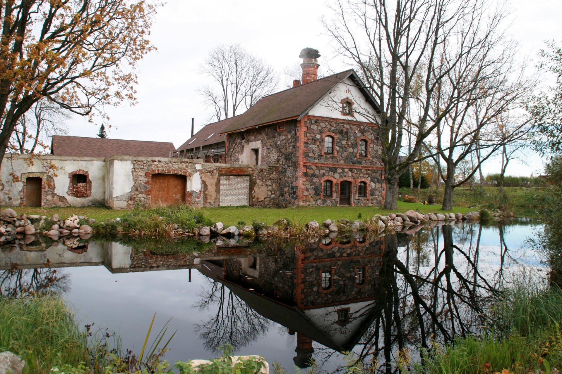 Idsel manor buildings